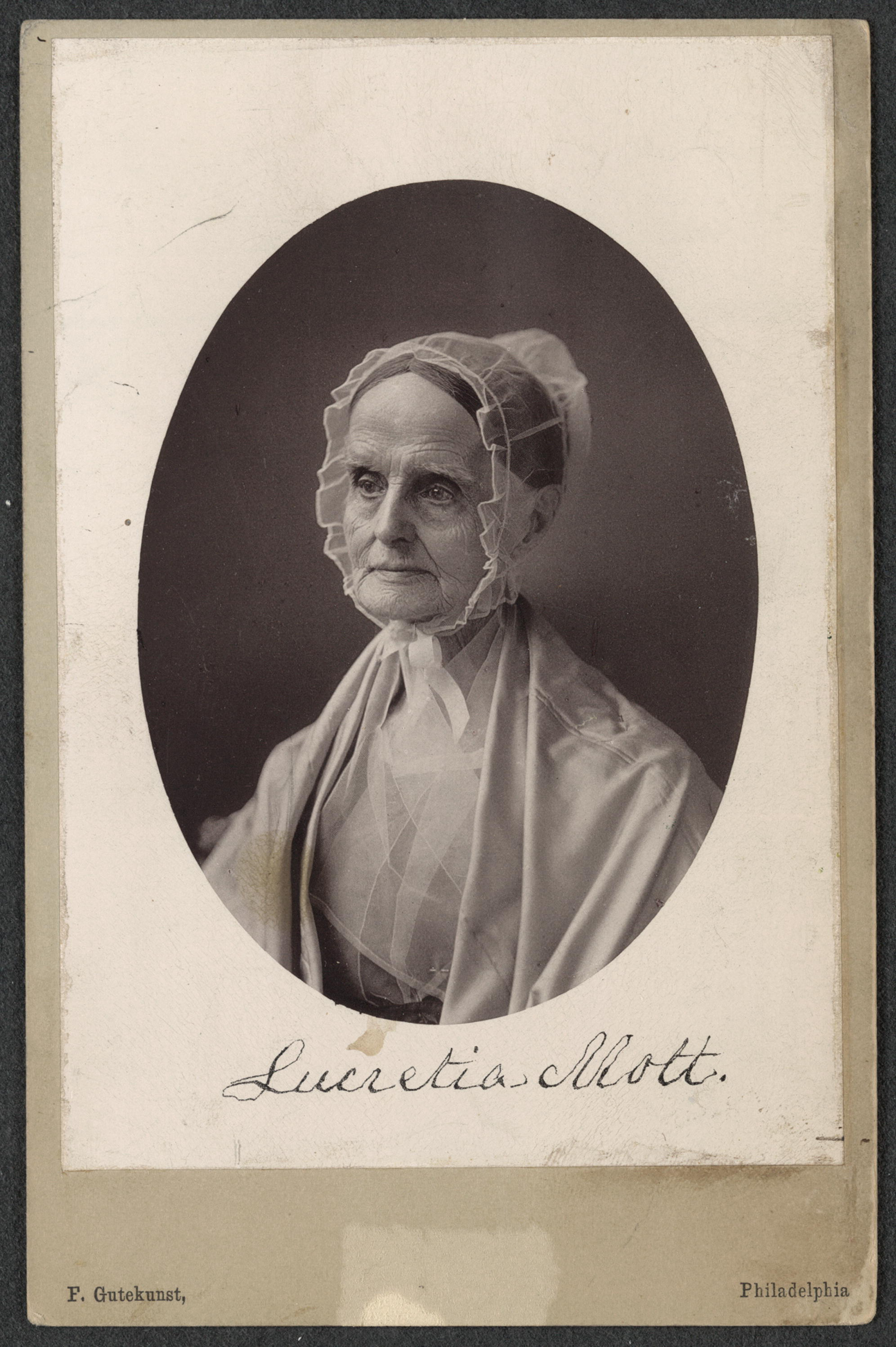 Formal portrait, head and chest, Lucretia Mott, facing slightly to right wearing shawl and bonnet.